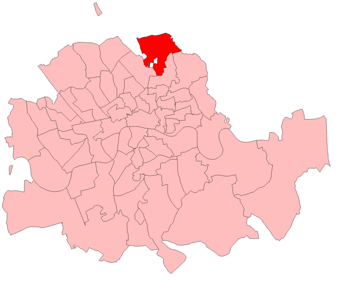 A map of Hackney North constituency within the Metropolitan Board of Works area, as it existed from 1885 to 1918.